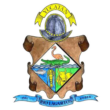 Coat of arms of the municipality of Río Lagartos, located at the state of Yucatán, México.